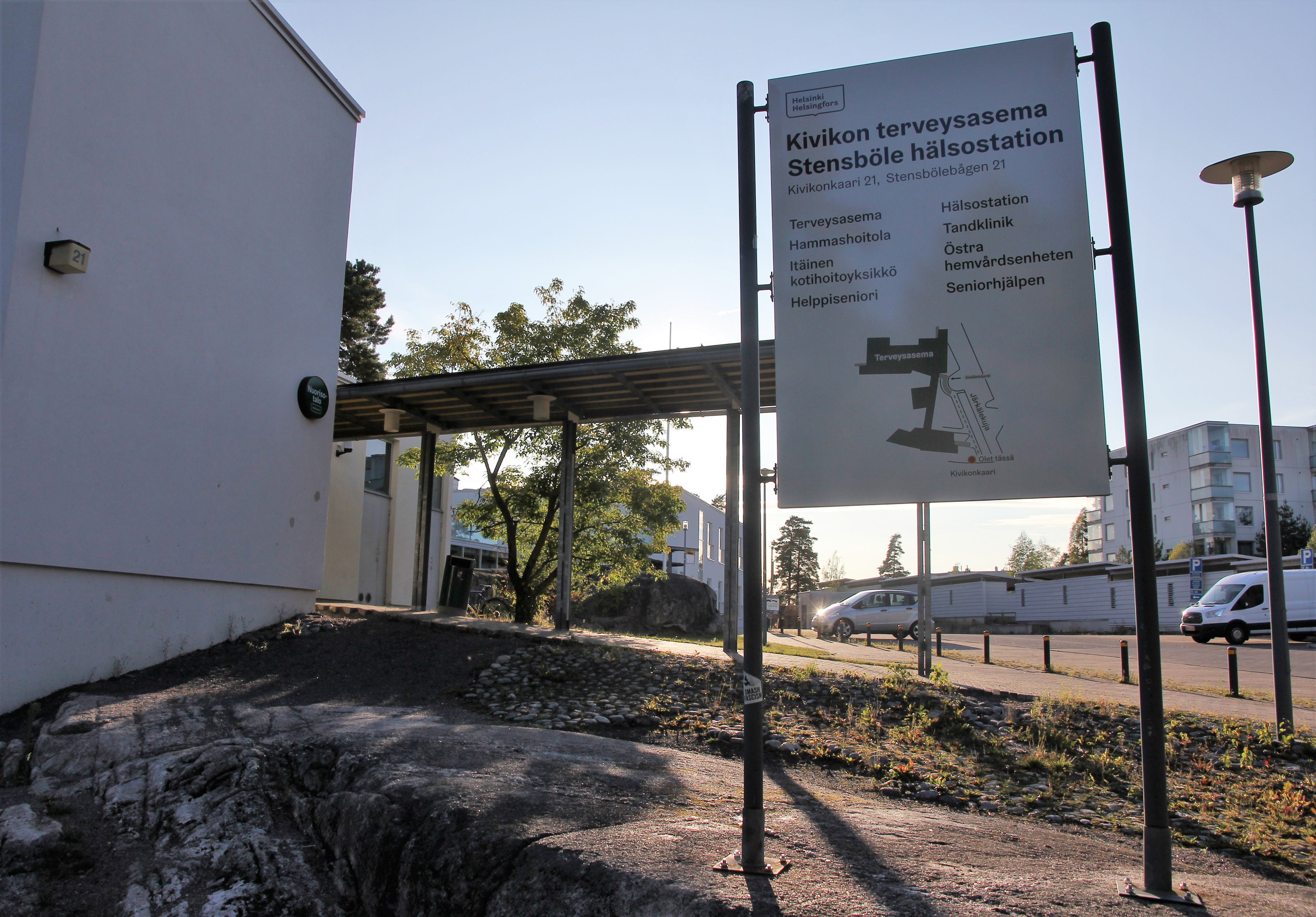 Kivikko Health Station. Address: Kivikonkaari 21, 00940 Helsinki.